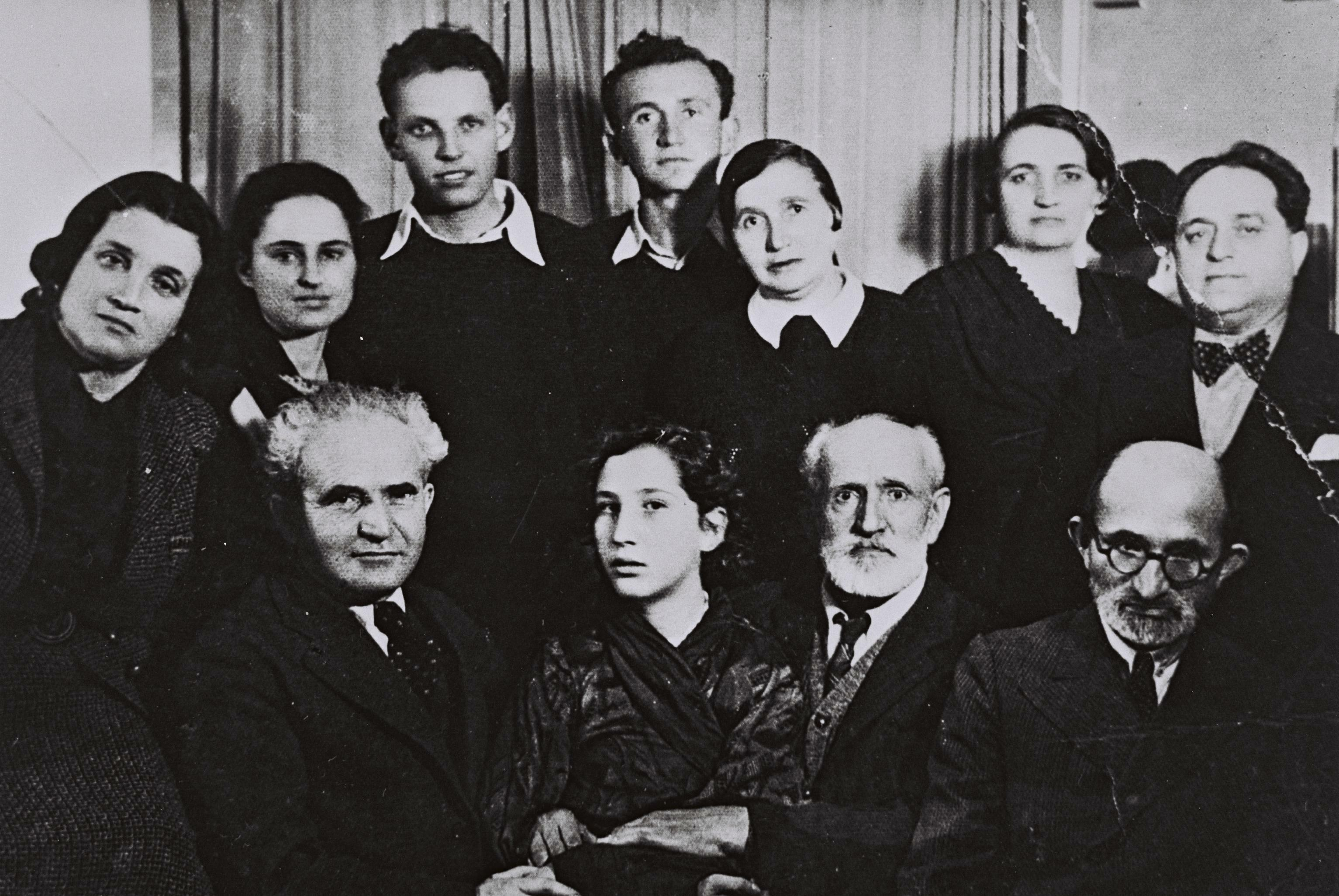 Ben Gurion family, 1958.